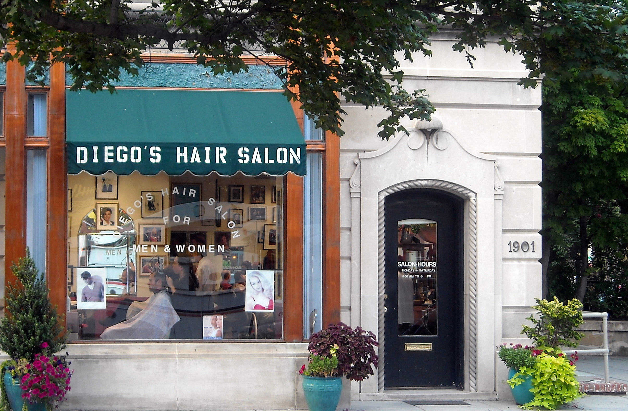 Diego's Hair Salon located at 1901 Q Street, N.W., in the Dupont Circle neighborhood of Washington, D.C.